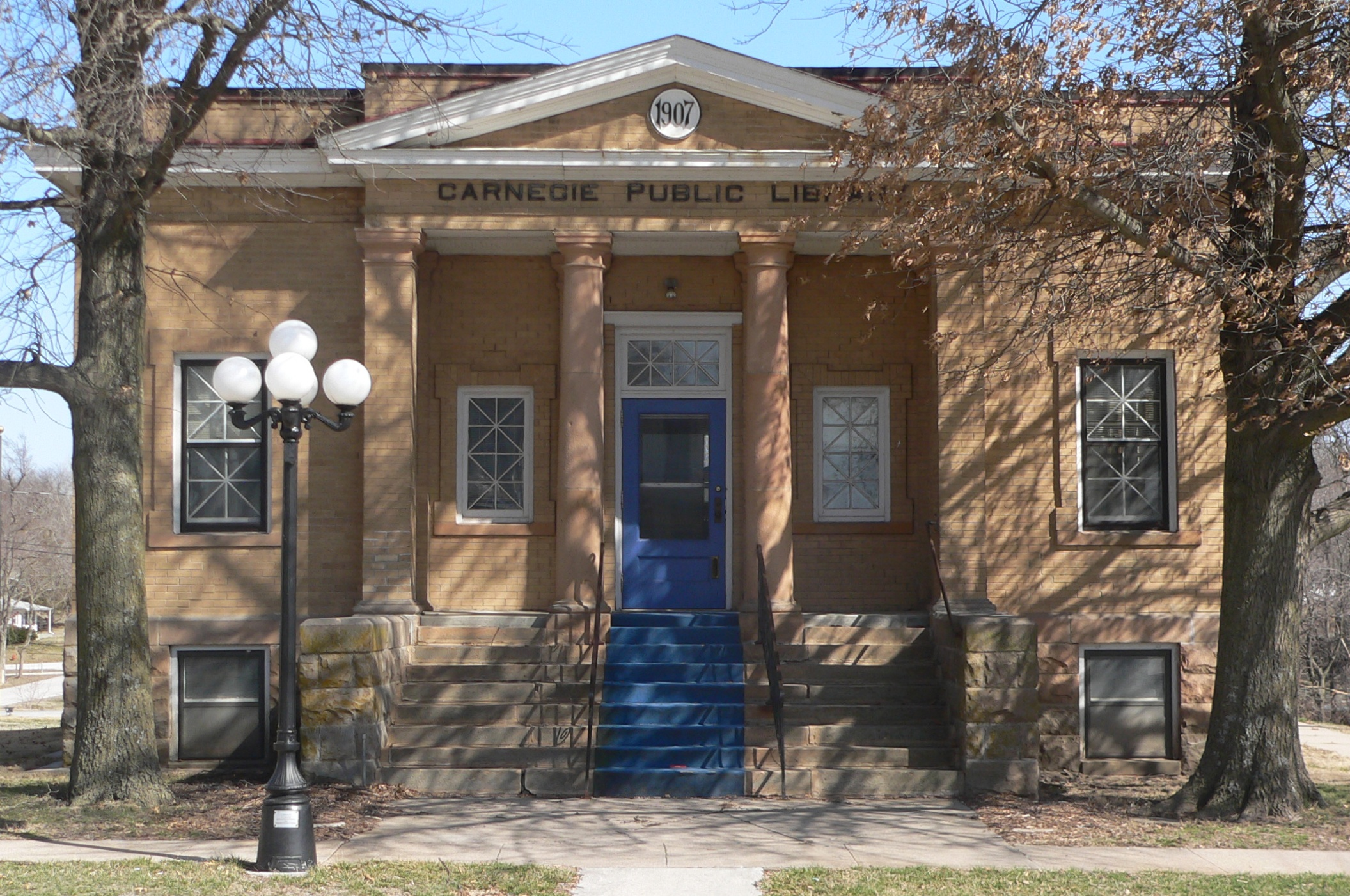 Carnegie library in Pawnee City, Nebraska; seen from the west.